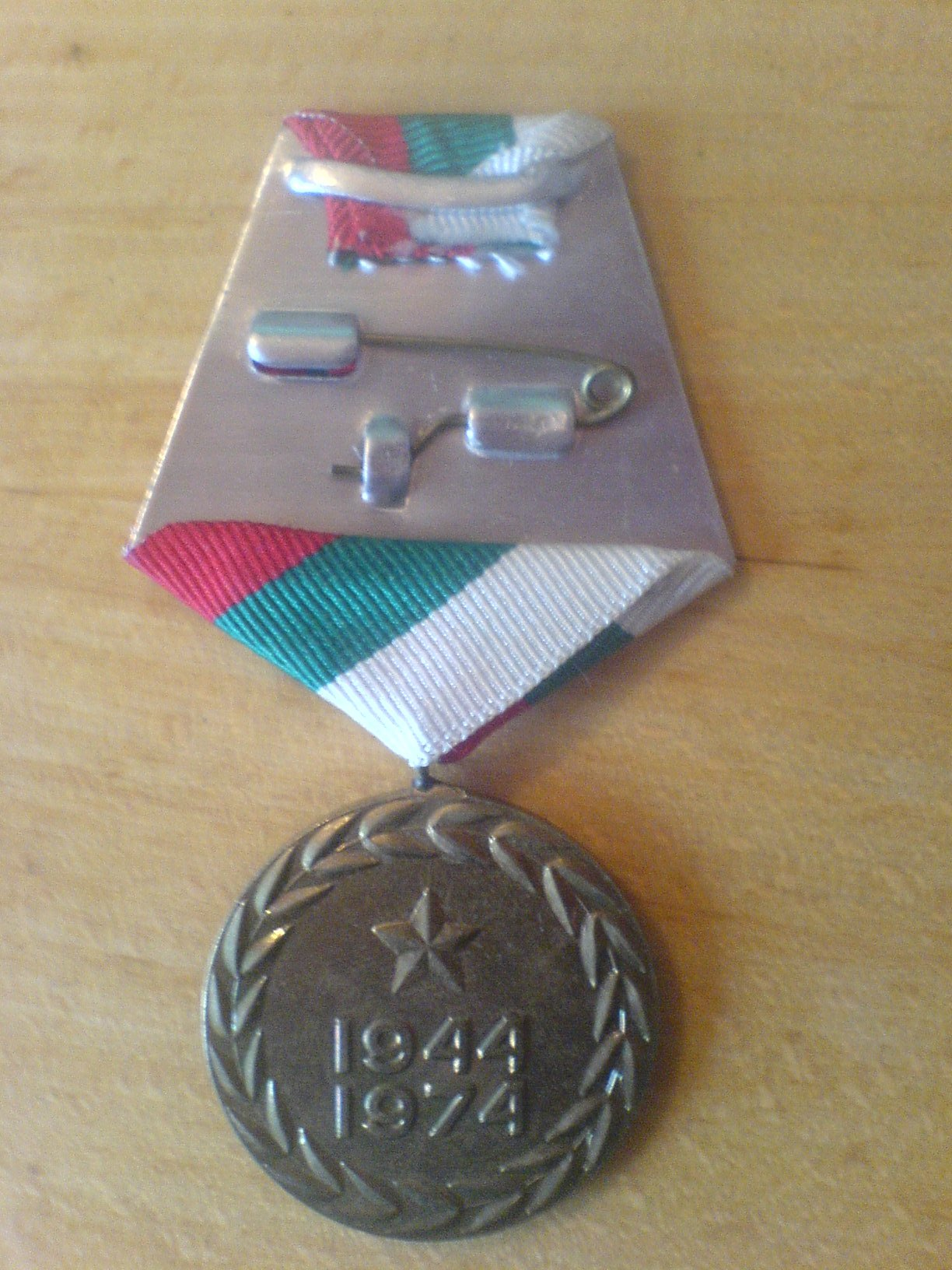 Medal 30 years MVR Socialist Bulgaria 1944-1974, avers